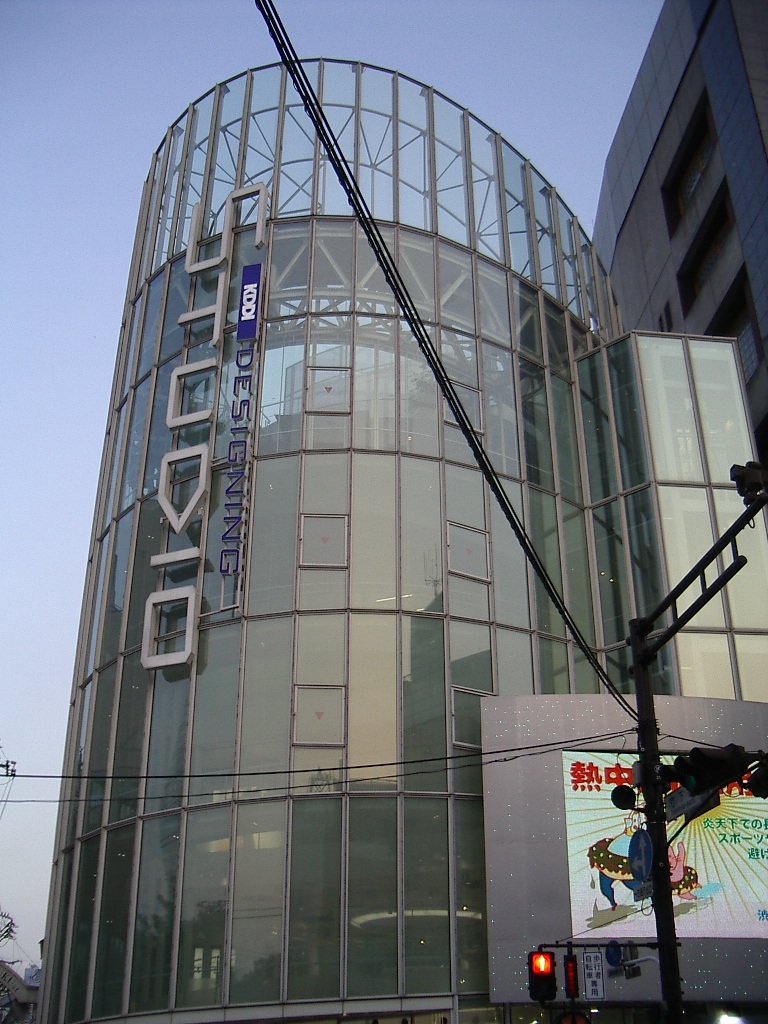 KDDI Designing Studio in Harajuku, Tokyo. Own re-uploaded image from Japanese Wikipedia.